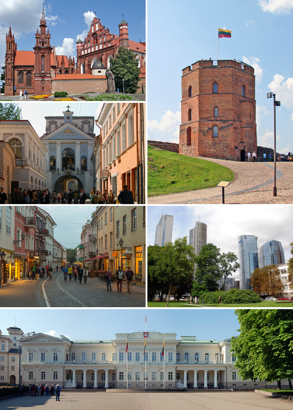 Collage for Vilnius Article